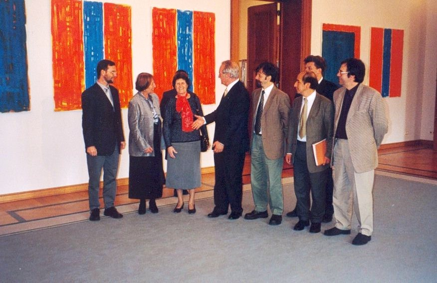 Representatives of the coalition against impunity welcomed by federal President of Germany Johannes Rau